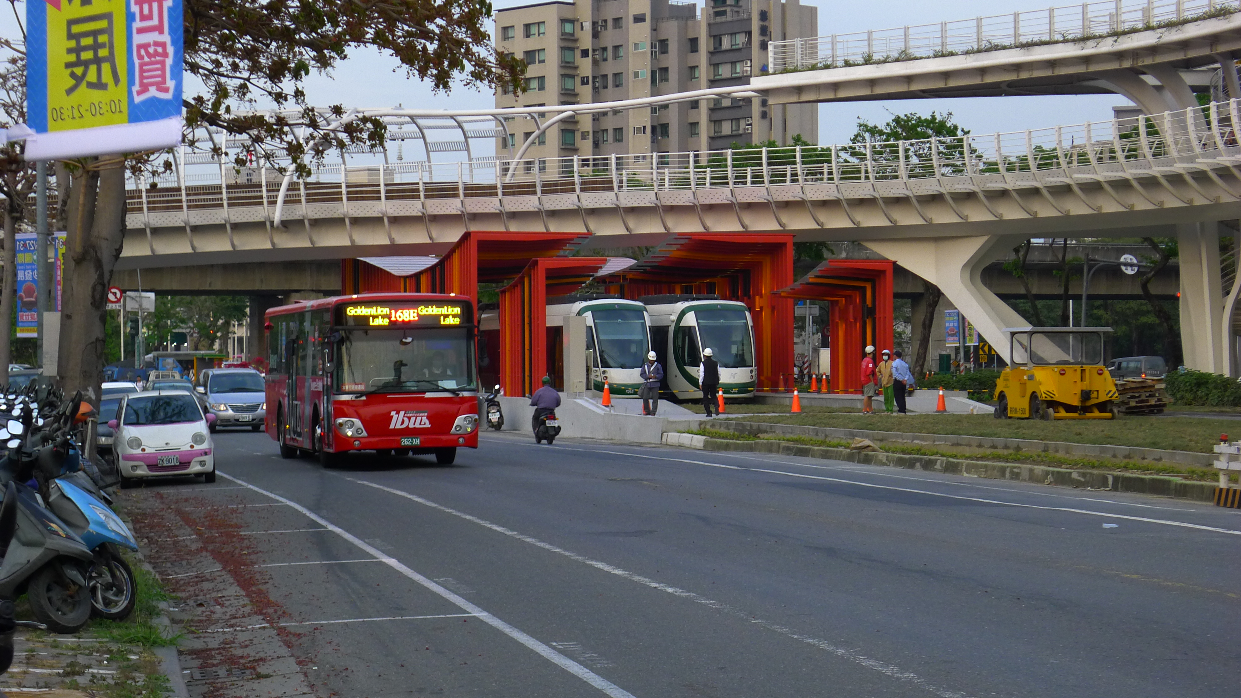 KMRT Circular Line Urbos 3 trams and a passing precursor bus of this light rail route (Kaohsiung Bus Circular Line 168) at C3 Star of Cianjhen Station